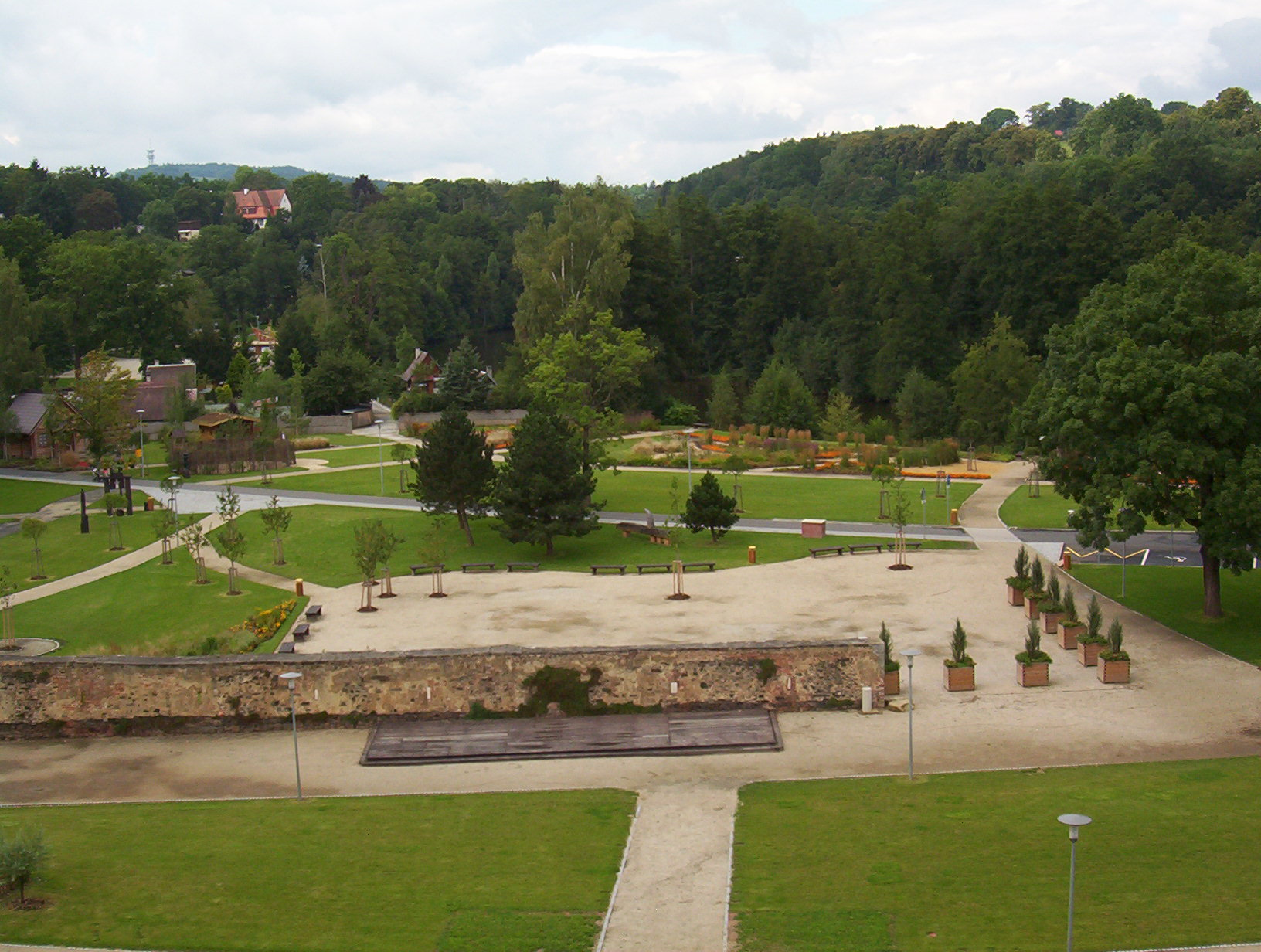 The view from the castle in Cheb